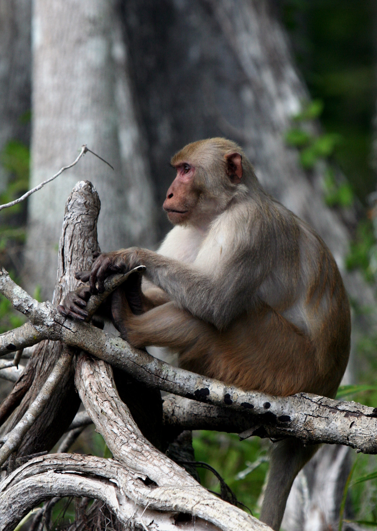 A feral rhesus macaque monkey along the banks of the Silver River in Florida.